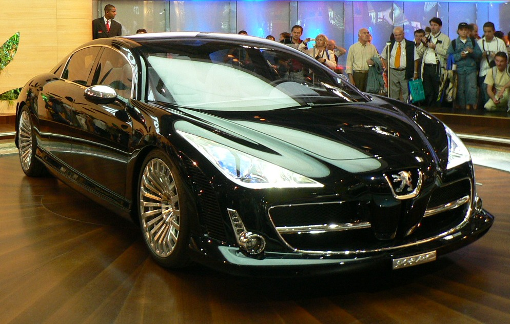 Peugeot 908 RC at the 2006 Paris Motor Show